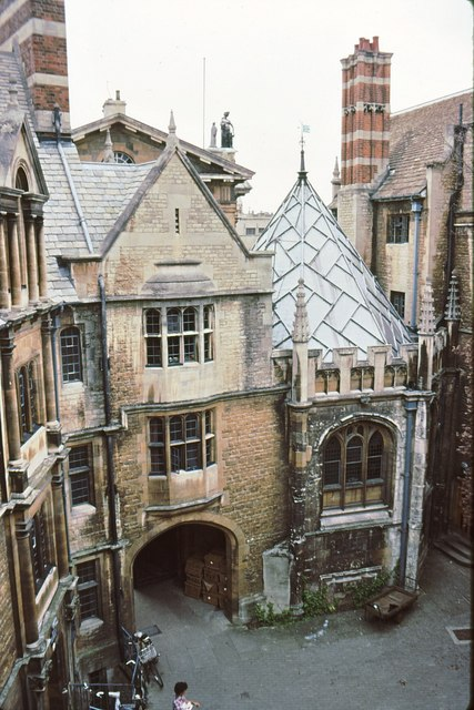 Hertford College Oxford - The Octagon The Octagon forms part of Hertford College's New Quad. Its uses have been numerous over the centuries, from chapel to computer suite!